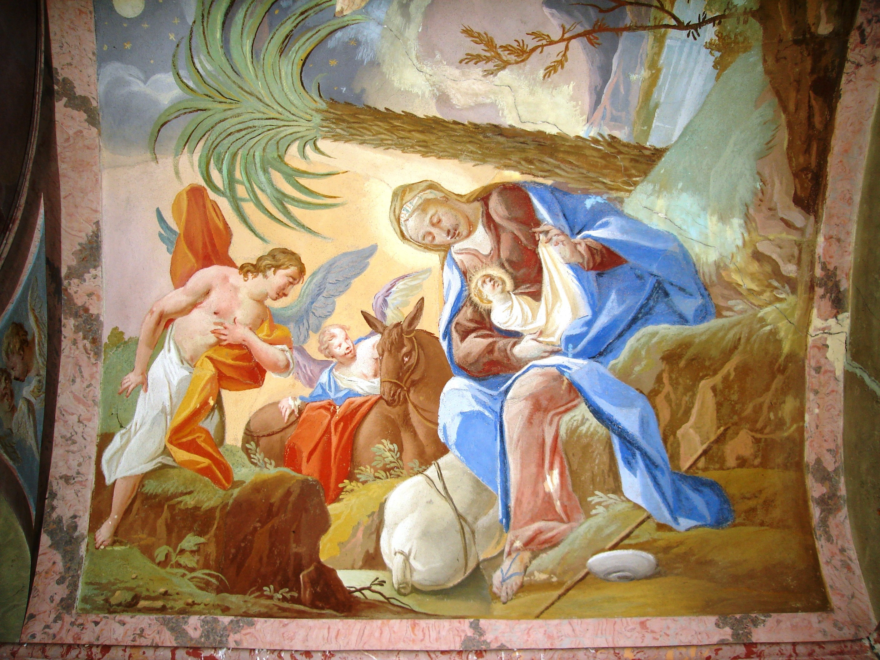 Fresco in the chapel of the episcopal palace in Fertőrákos